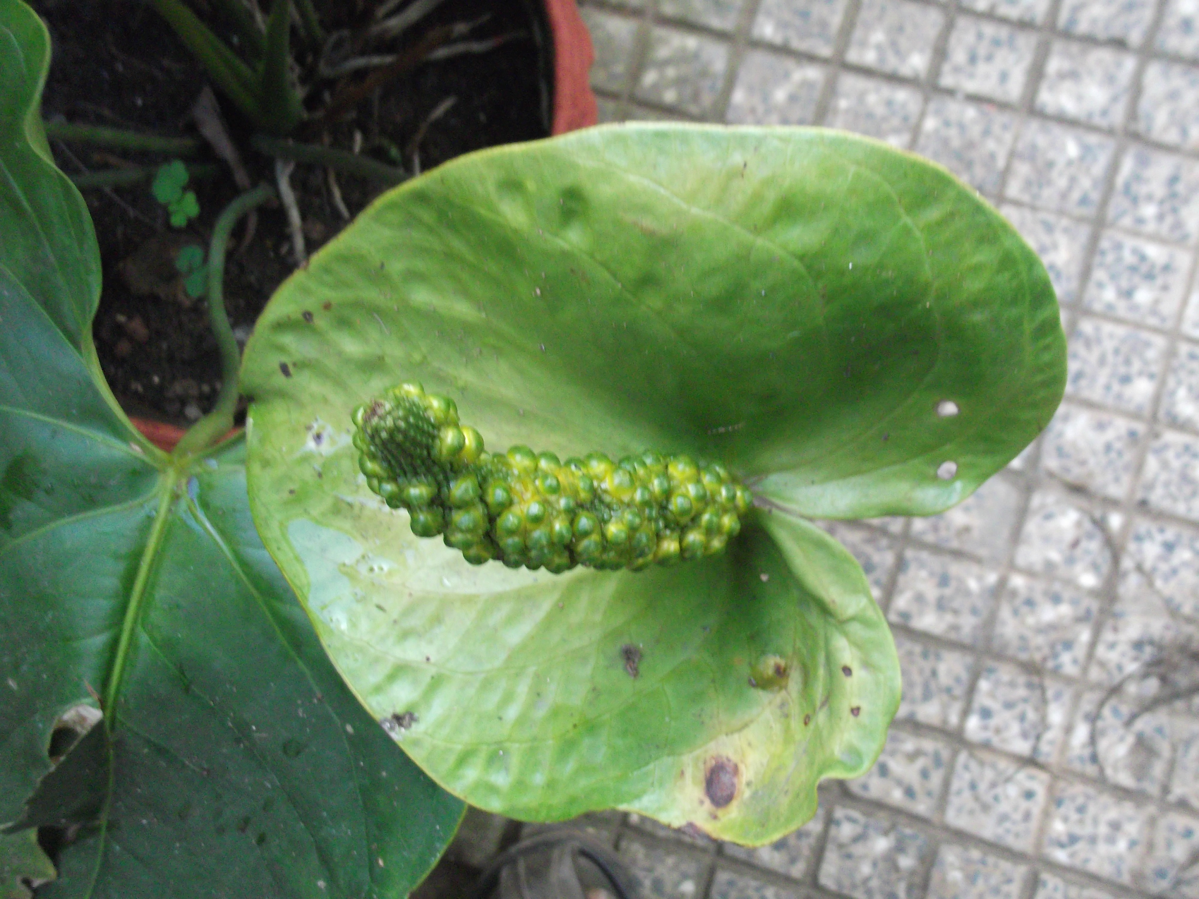 Spath green,spadix green.